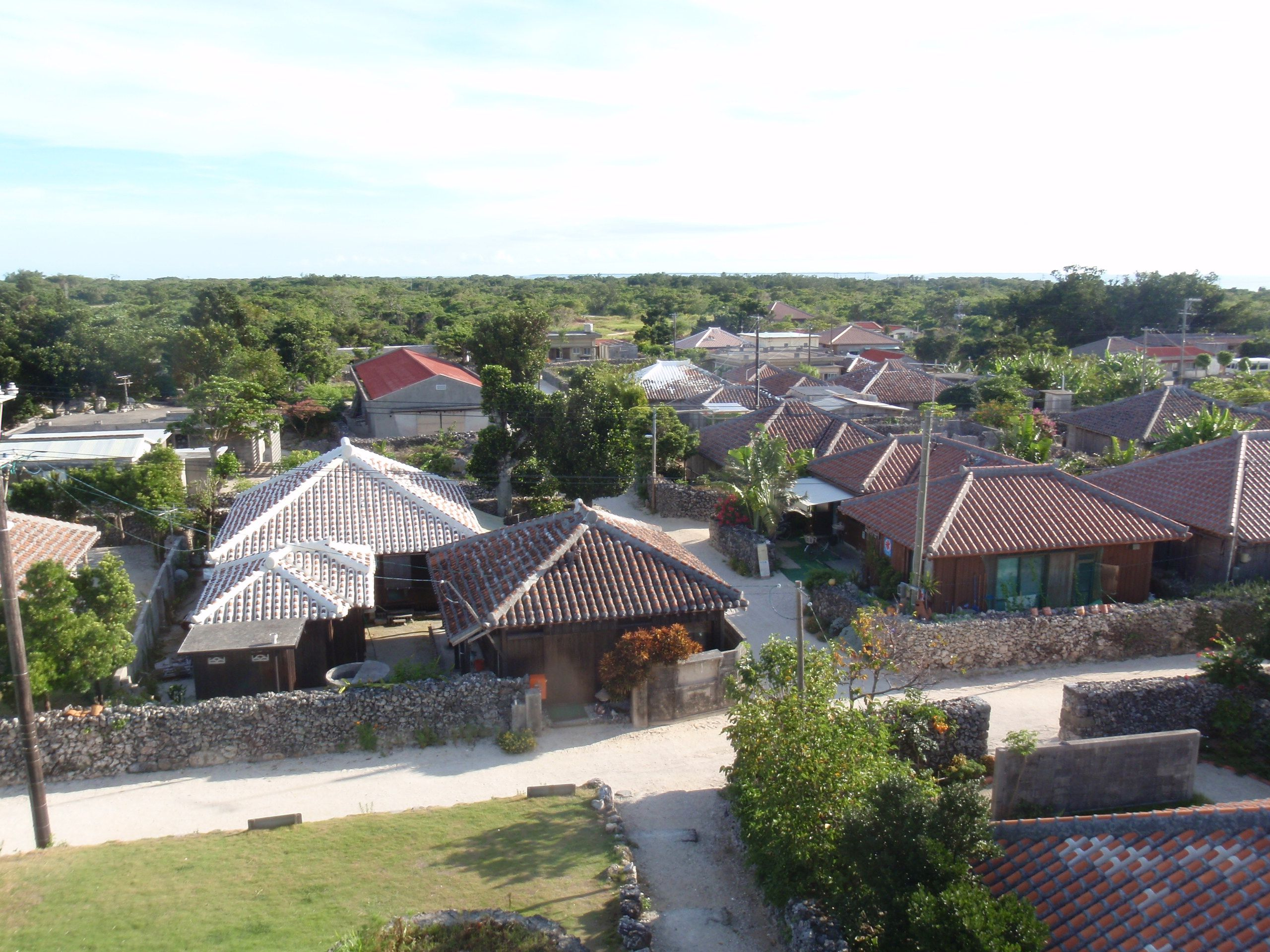 Aerial view of Taketomi from Nagaminoto Tower (なごみの塔)